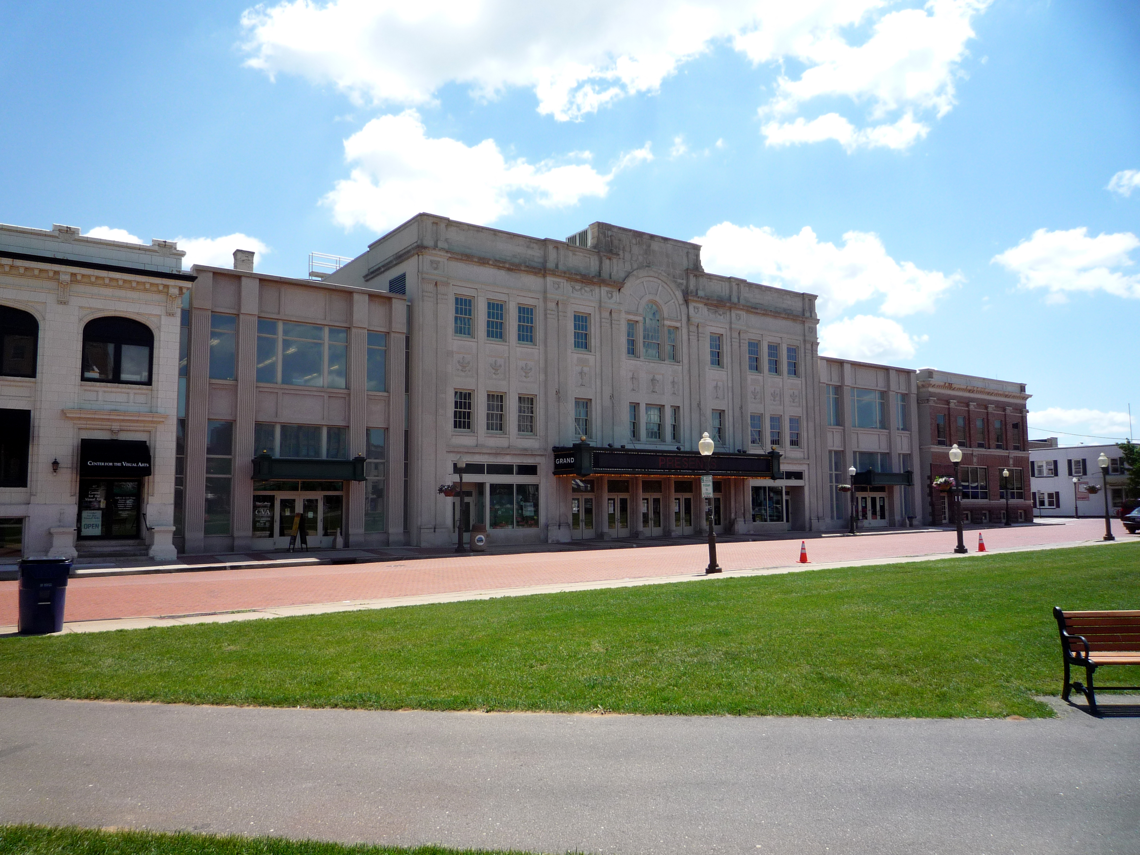 The Grand Theater on ARTSblock, downtown Wausau, Wisconsin, USA.